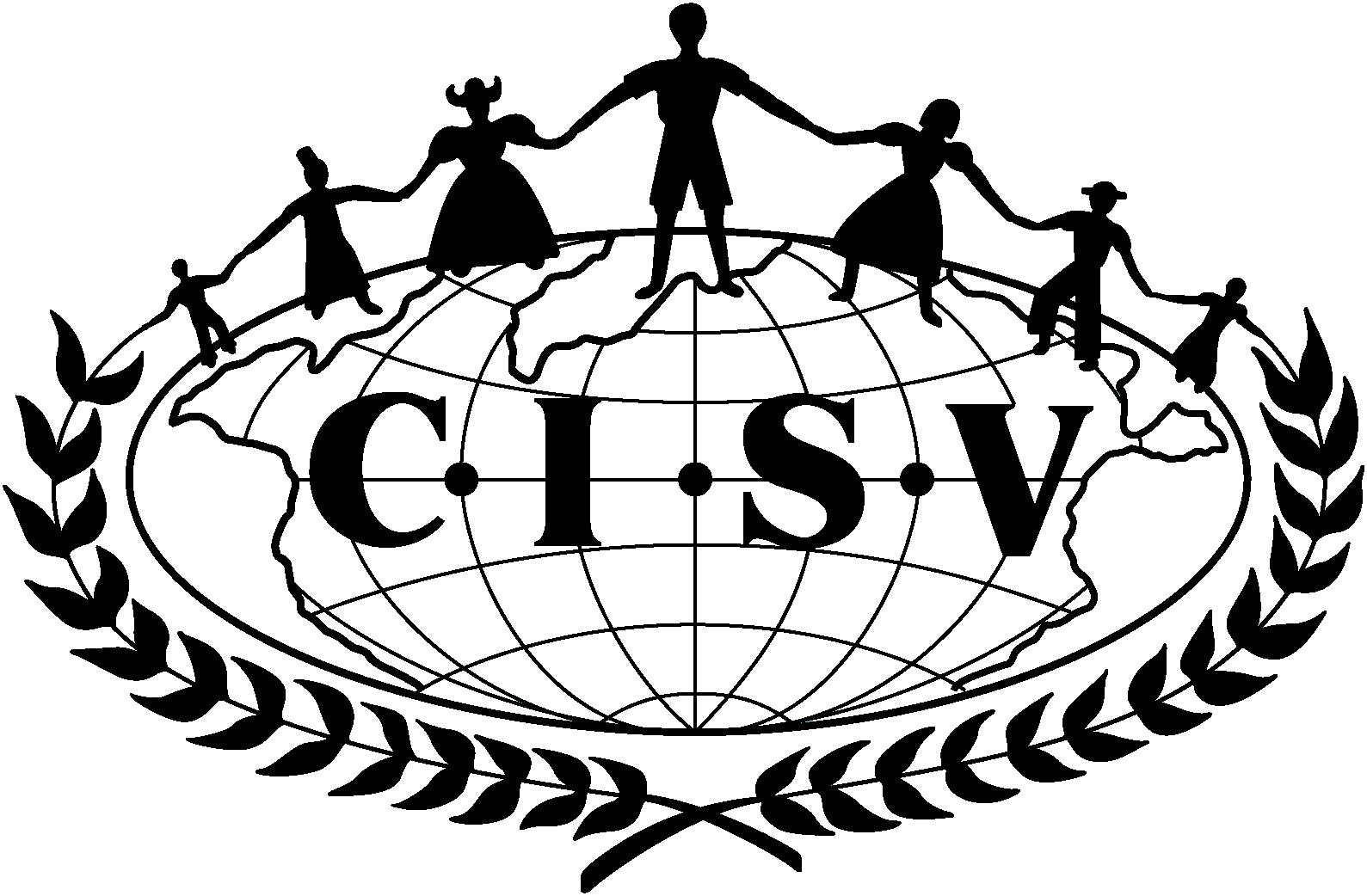 The old CISV logo, used up to 2006